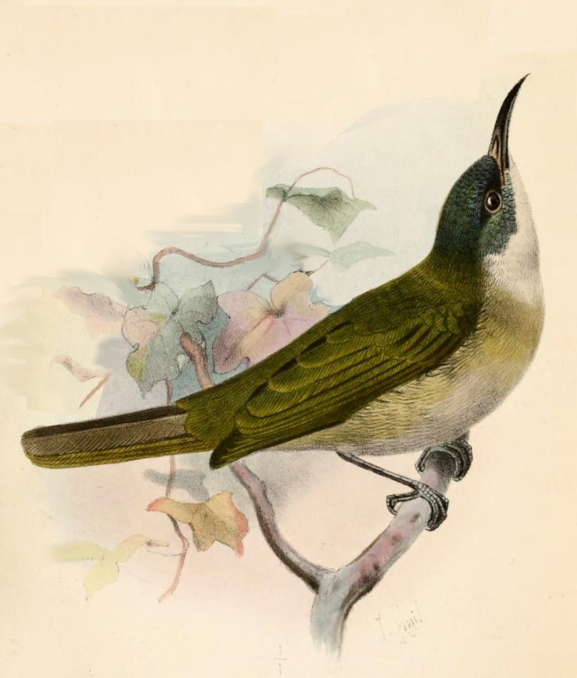 Ptilotis virescens = Lichmera lombokia, Scaly-crowned Honeyeater